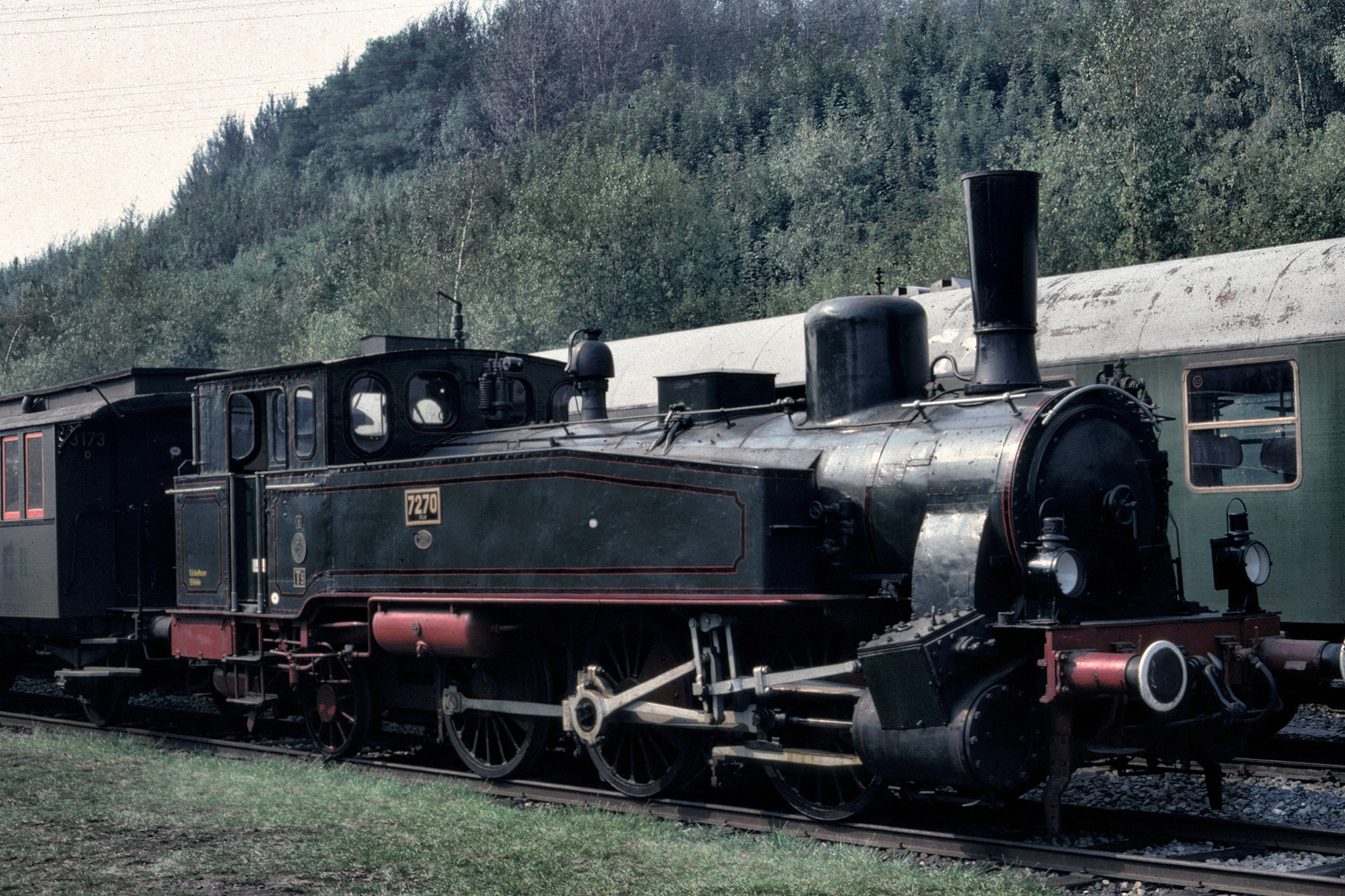 German steam locomotive, the Prussian T9.1 "7270 Cöln", at Bochum-Dahlhausen Railway Museum in Germany.